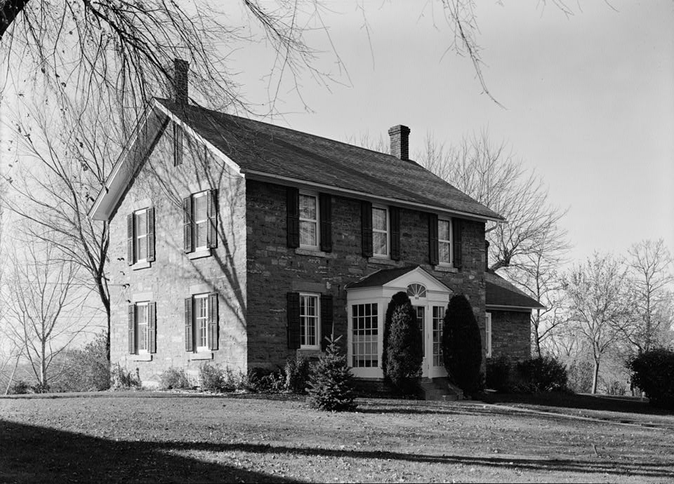 Historic Frederick Spangenberg House, 375 Mount Curve Avenue, Saint Paul, Ramsey County, Minnesota, United States